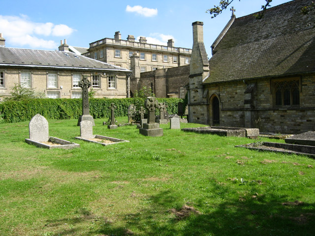 Burley on the Hill, near Oakham. Looking from the churchyard across to the Hall. The church is All Saints, rebuilt by L J Pearson in the 19th Century on medieval foundations.